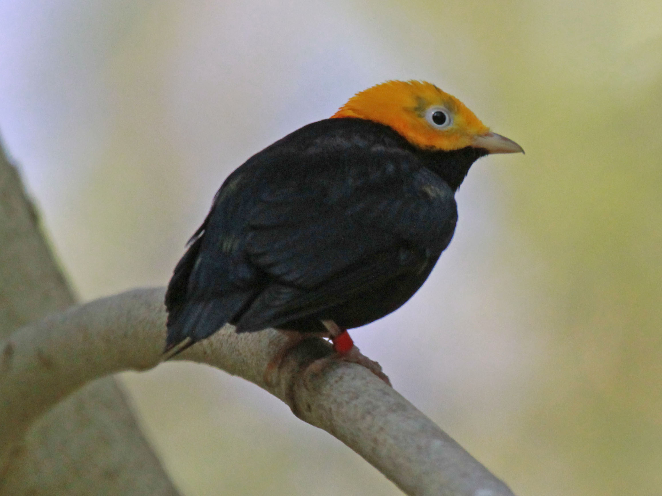 Golden-headed Manakin (Pipra erythrocephala) at the North Carolina Zoo in Ashboro, North Carolina